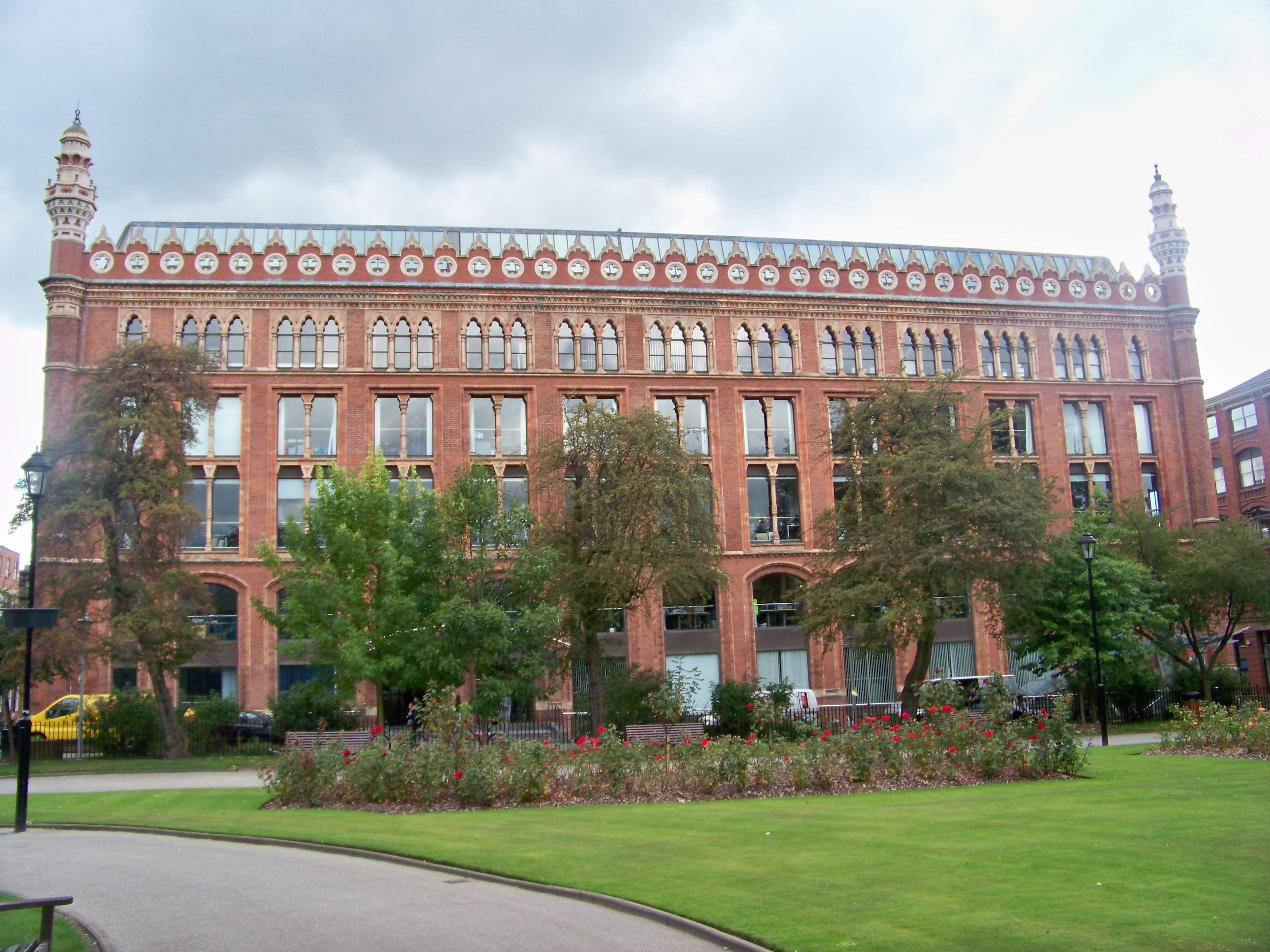 St Paul's House, Park Square, Leeds. Taken on the afternoon of Saturday 15th September 2009.